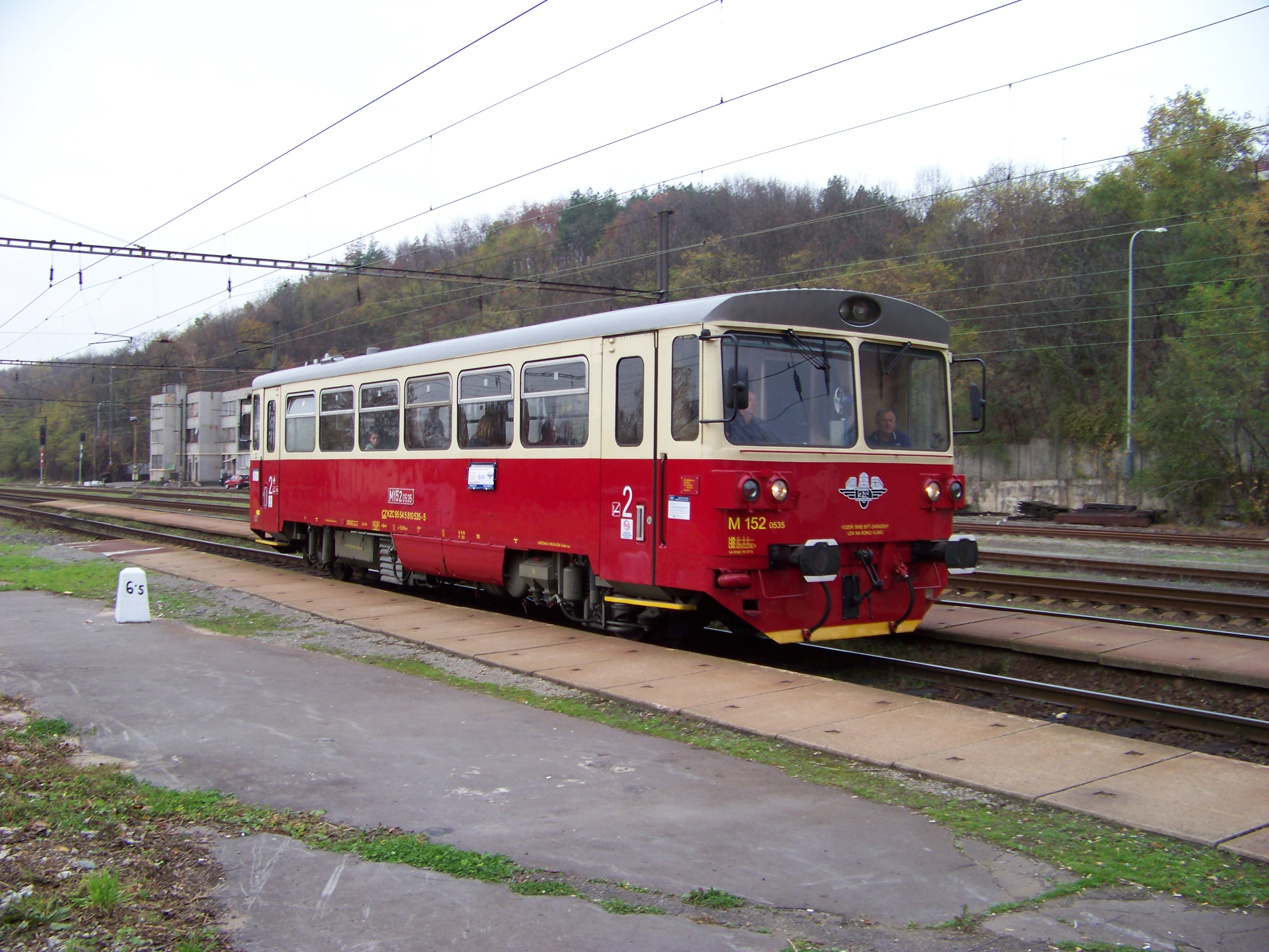 Prague-Vysočany, Czech Republic. Praha-Vysočany train station, a motor car of KŽC.